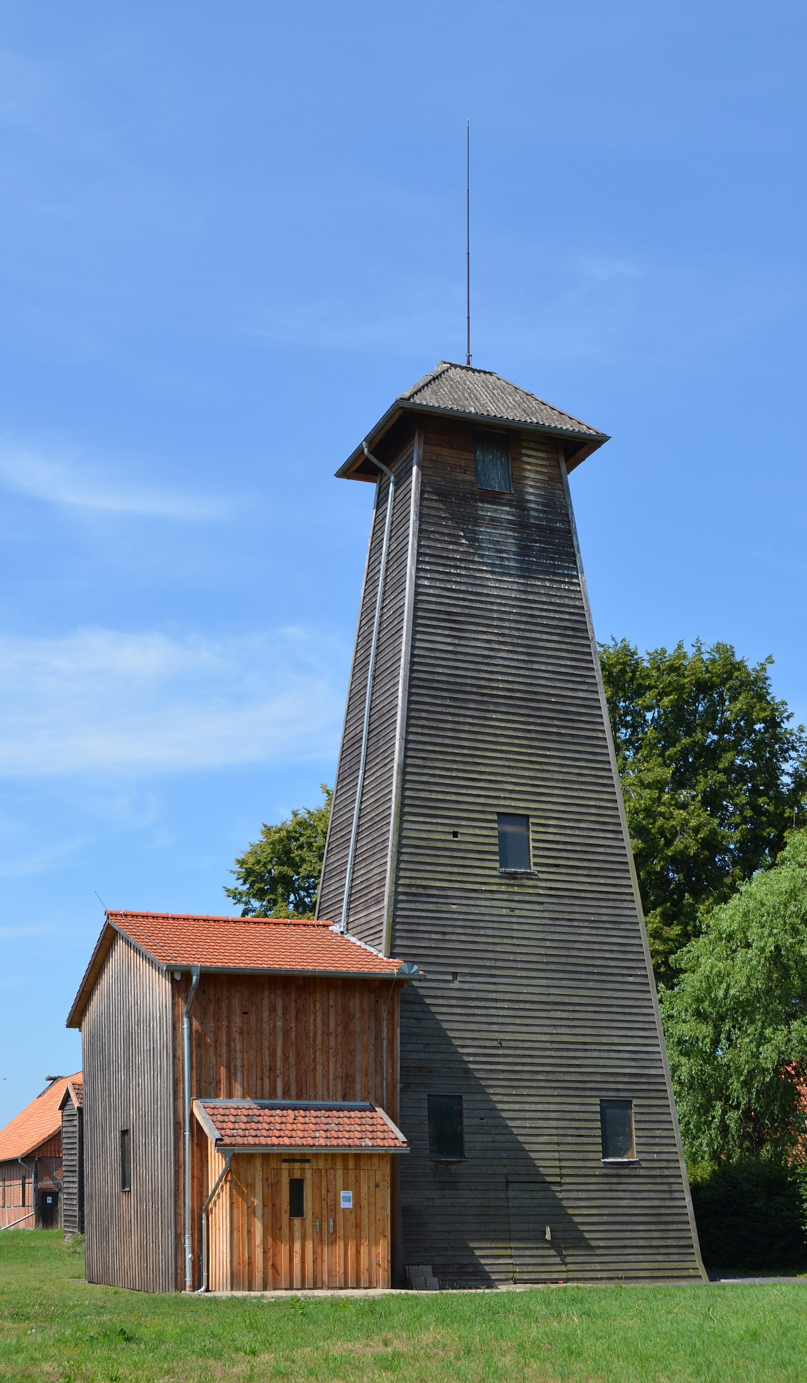 Einbeck (Lower Saxony, Germany) – district Salzderhelden – saline – drilling rig This is a photograph of an architectural monument.It is on the list of cultural monuments of Einbeck This photograph was taken with a Nikon D7000